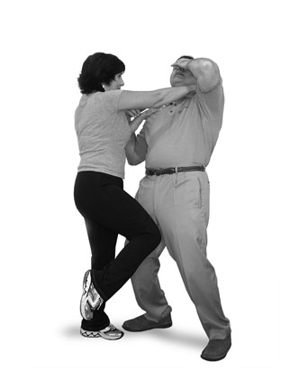 Knee Kick Training as a Basic Self Defense Move will help you develop the most powerful self defense weapon in the human arsenal. This leg kicking technique requires the least amount of energy to get maximum striking impact. The "force" of your knees are always with you! Learn to use your legs as self defense weapon with a Knee Kick.